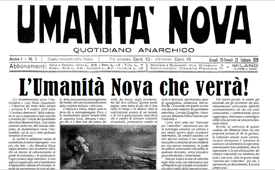 remake of Umanità Nova's first issue